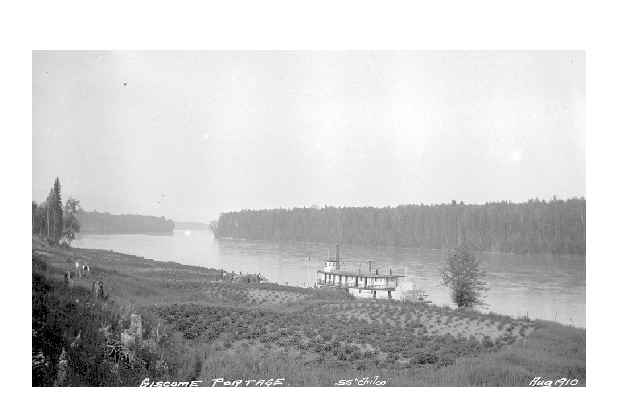 Chilco at Giscome Portage. Photo taken 1910.